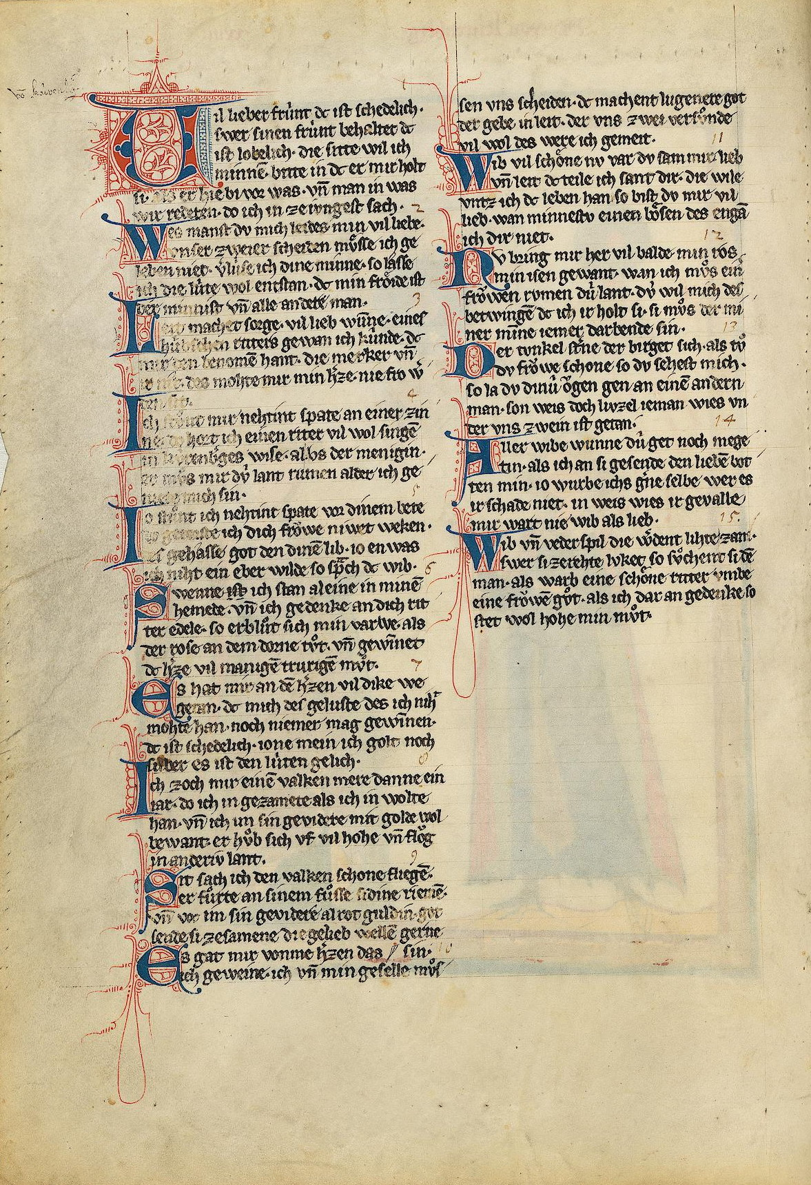 The 15 strophes of Middle High German verse preserved under the name Der von Kürenberg in the Codex Manesse, folio 63v.